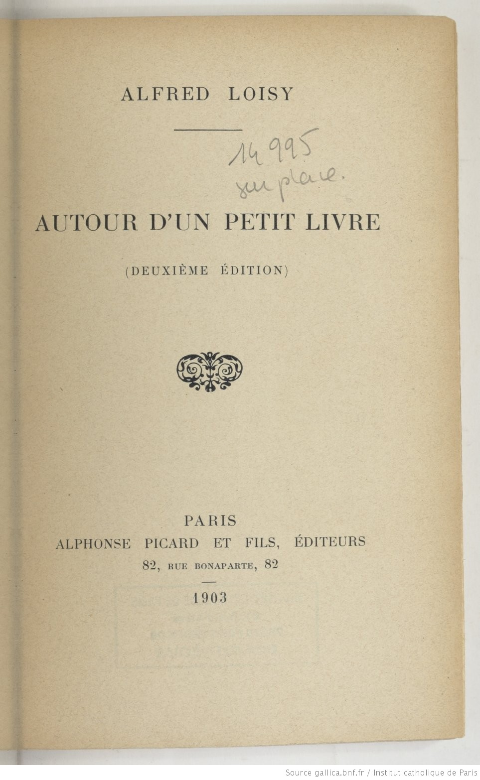 Cover page "Autour d'un petit livre" of A.Loisy (1903)